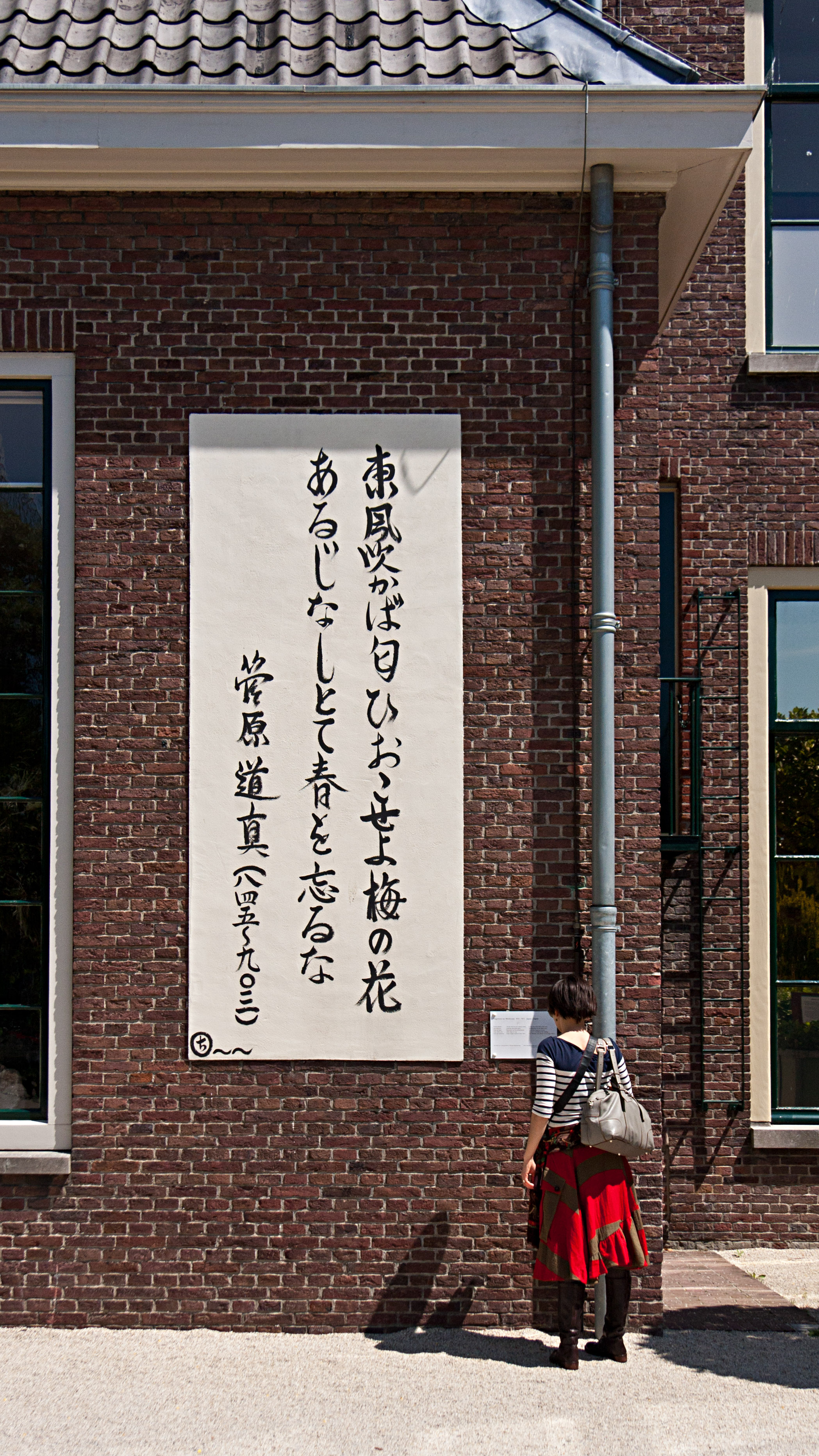 A wall poem in Leiden, the Netherlands, in Japanese, by Sugawara no Michizane